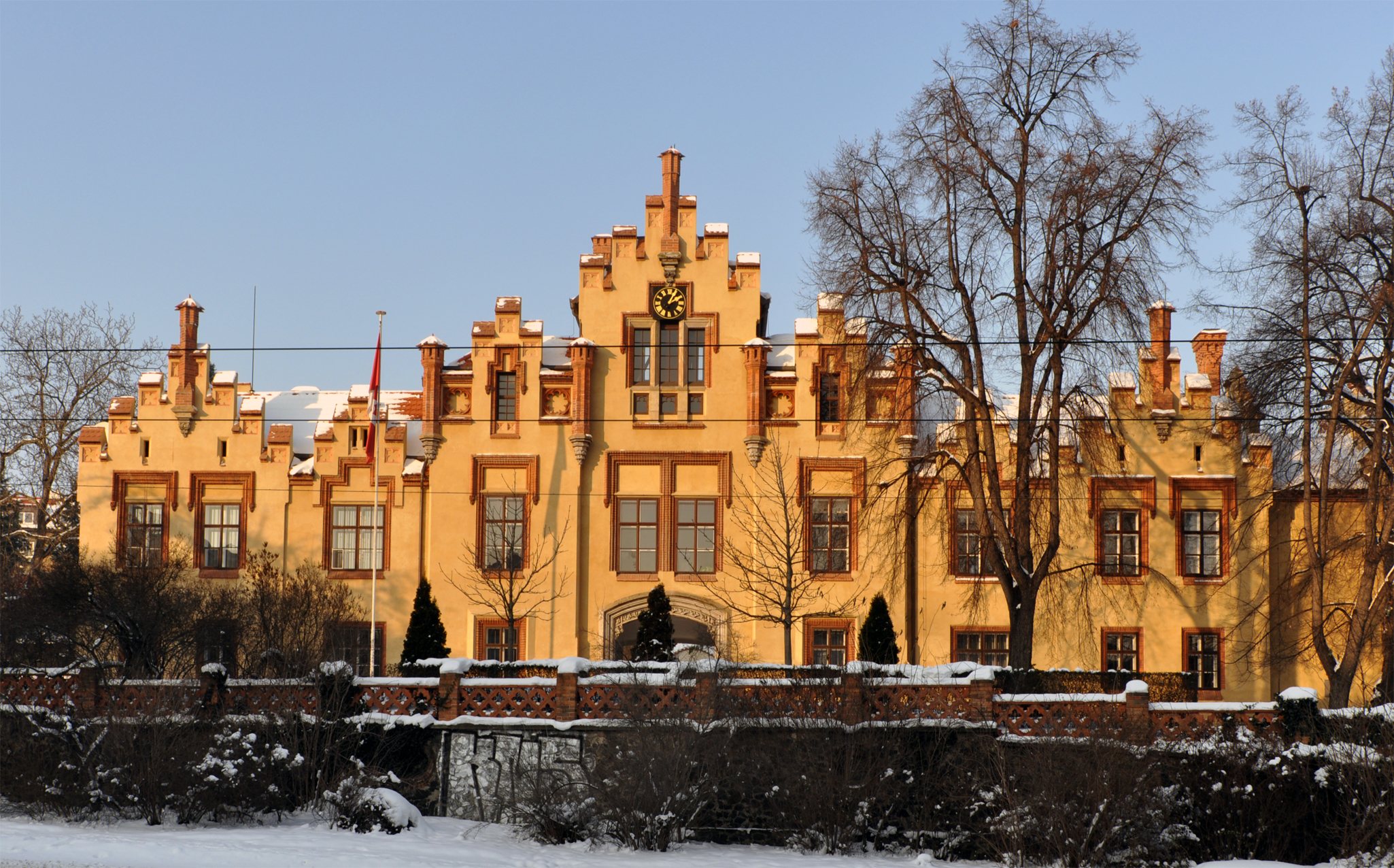 Holding Hadovka, Prague